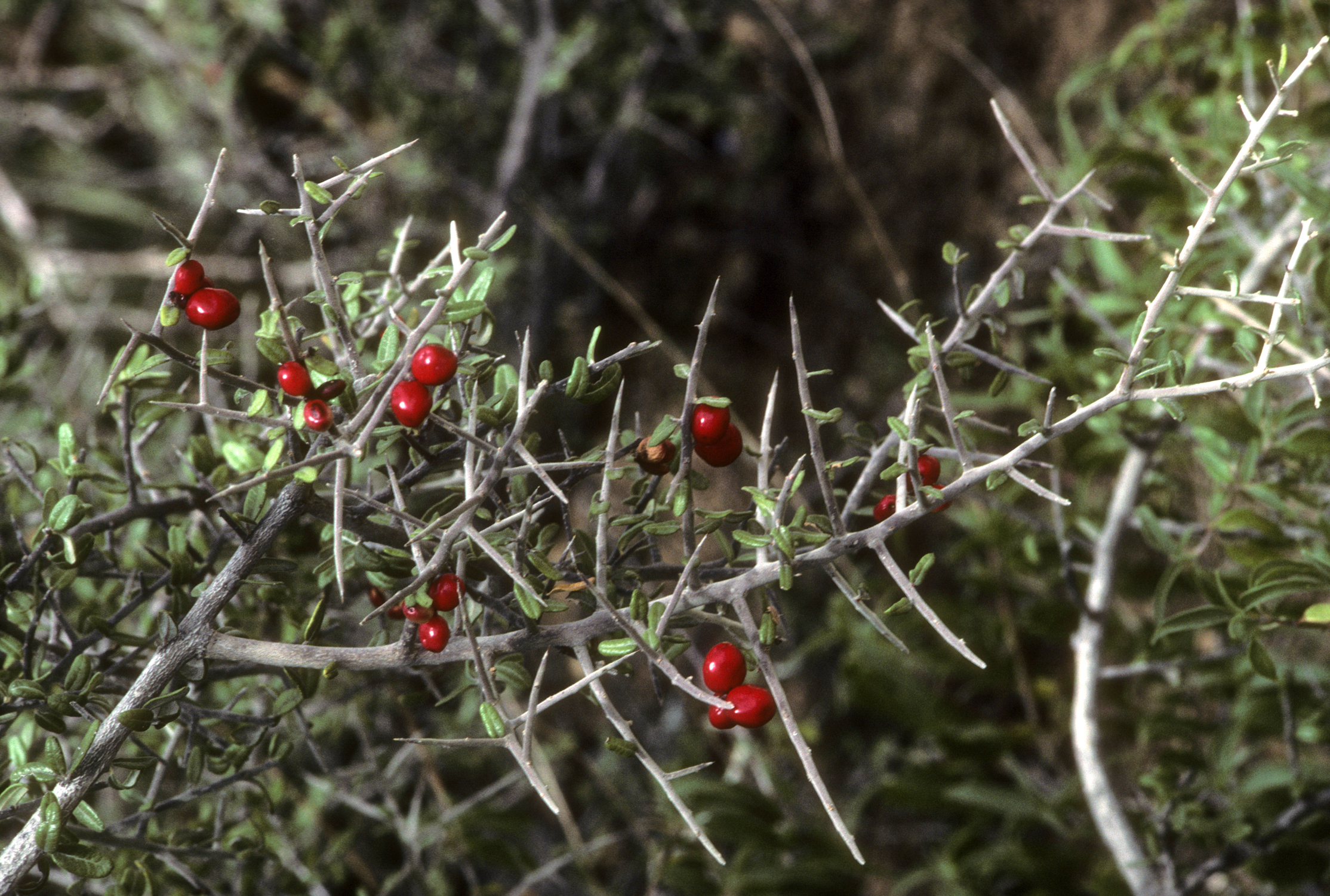 Castela tortuosa Tehuacan Desert, Puebla, Mexico. Tehuacán Valley matorral ecoregion, Tehuacán-Cuicatlán Biosphere Reserve. July 1987.